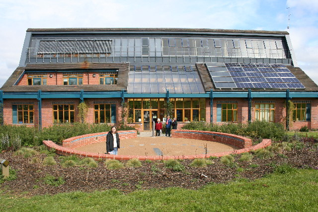 Brocks Hill Environmental Centre. Exciting building showing energy saving techniques. Courses, cafe and environmental areas. Great sundial using a body!